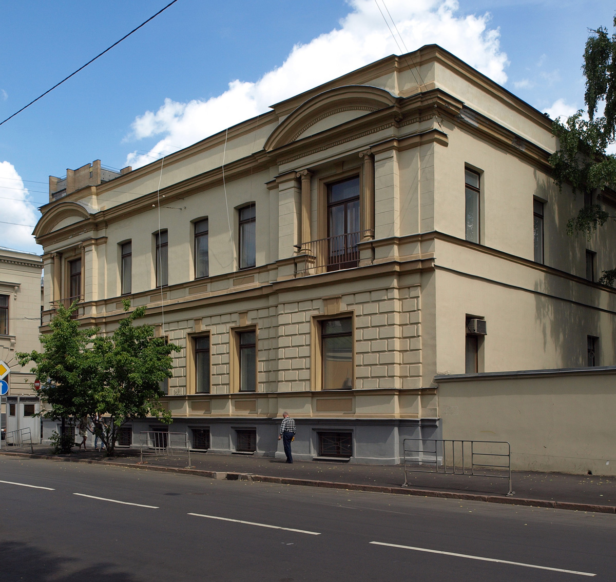 Former Embassy of Cameroon in Moscow